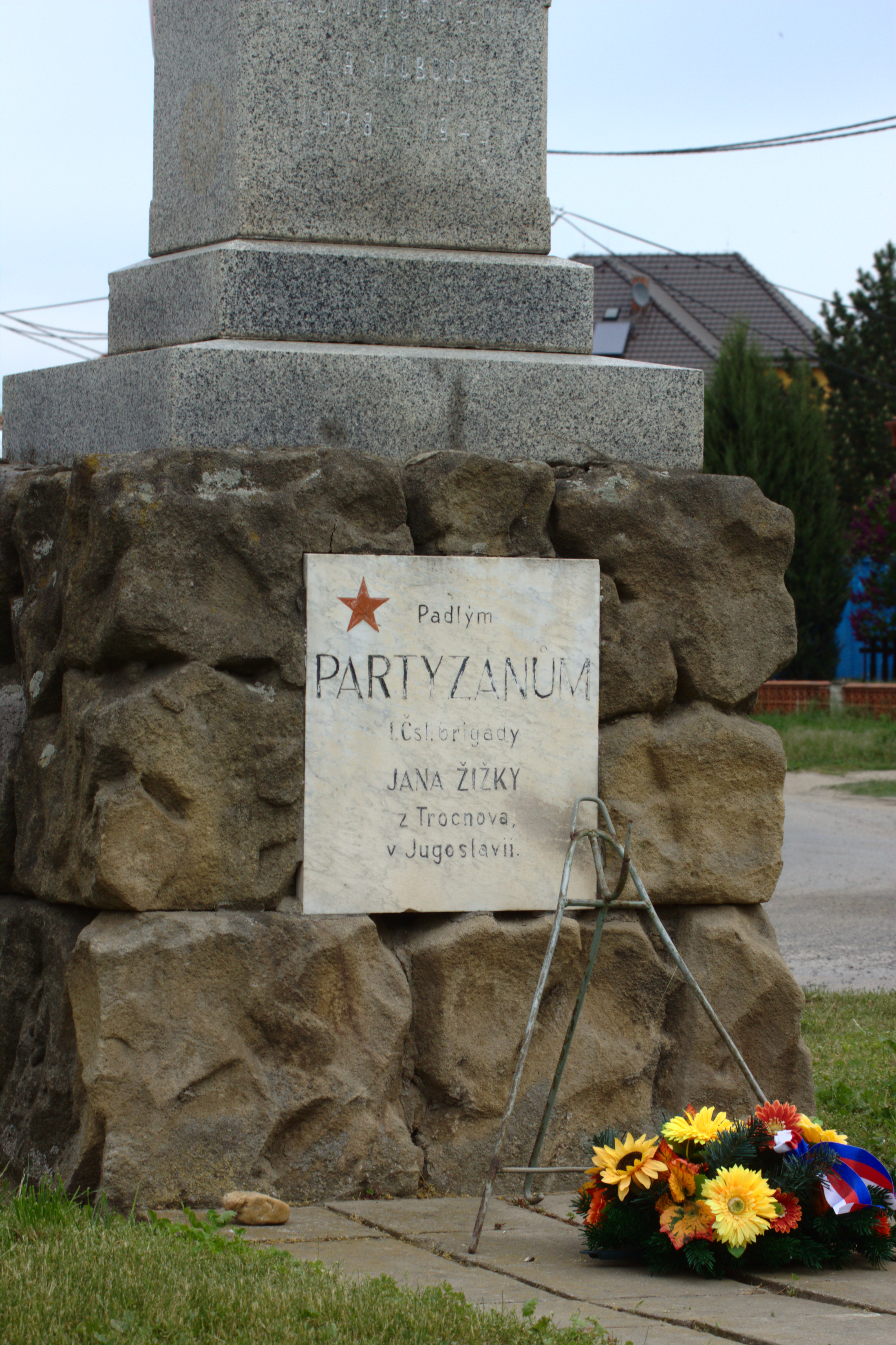 A memorial to the Jan Žižka Czechoslovak Brigade of the Yugoslav Partisans, South Moravian Region, CZ